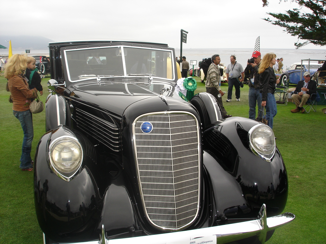 I shot the picture myself on the 2005 Concours d'elegance in Pebble Beach, CA.